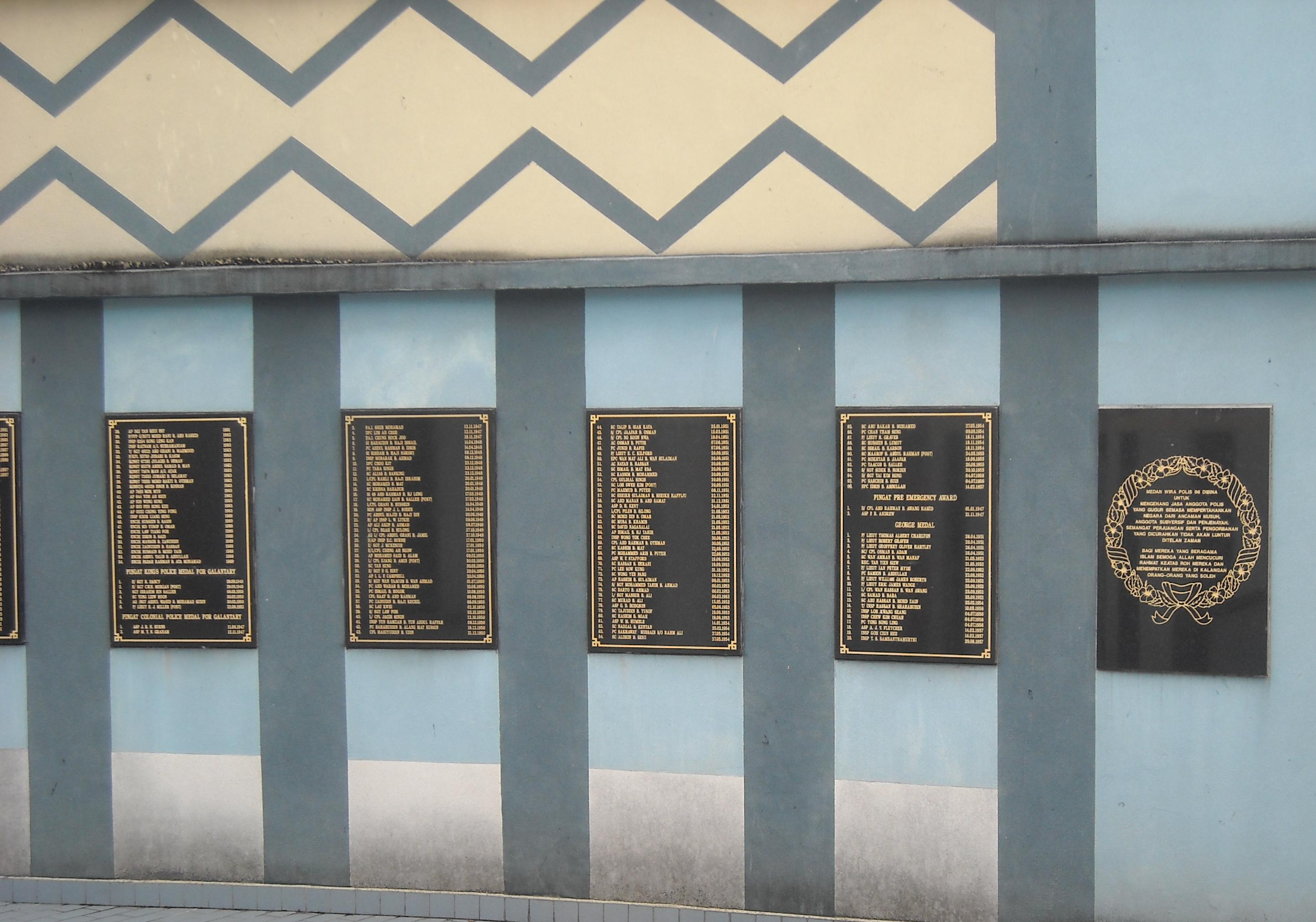 Outside the Royal Malaysia Police Museum Centre, are the names of all Malaysian police officers killed in the line of duty since 1940s mounted on a board on the wall, known as Warrior Square or Dataran Perwira in Malay. Taken by me at outside the Royal Malaysia Police Museum Centre, Kuala Lumpur, Malaysia.